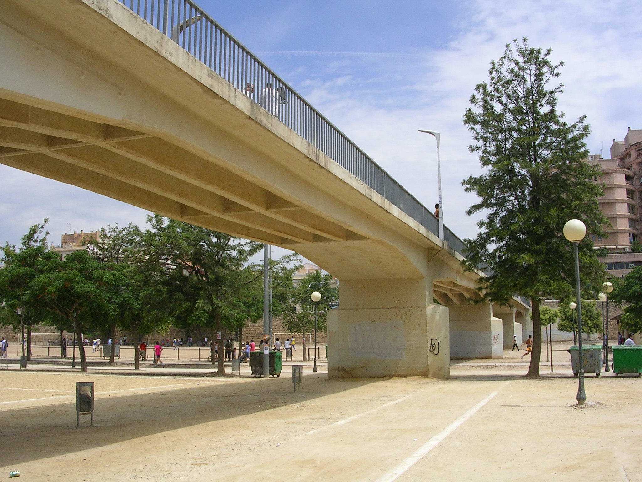 Wood Bridge, Valencia, Spain.